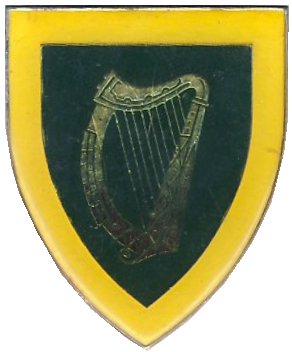 SANDF South African Irish Regiment emblem